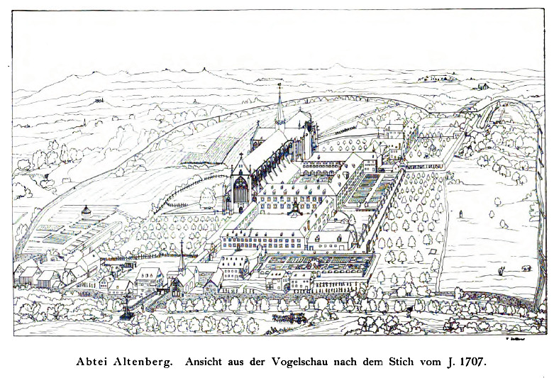 Abtei Altenberg, Odenthal, Germany Abtei Altenberg, a former monastery. Picture from 1707. Taken from Die Kunstdenkmäler der Rheinprovinz.